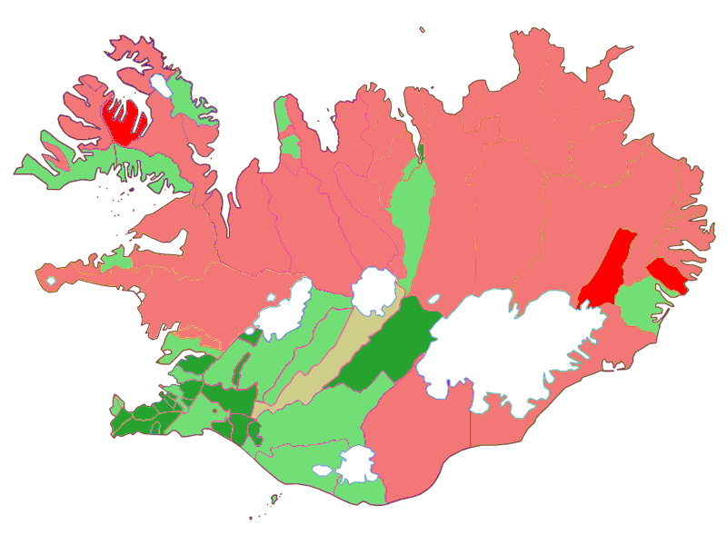 This map shows the changes in population of the municipalities of Iceland in the ten year period 2002-2012. The dark red municipalities have lost over 20% of their population in this period while the lighter red have experienced less severe depopulation. The green municipalities experienced a growth in population, the growth was lower than the total growth of the nation in the period (11.58%) in the light green ones and higher than the national rate in the dark green ones.